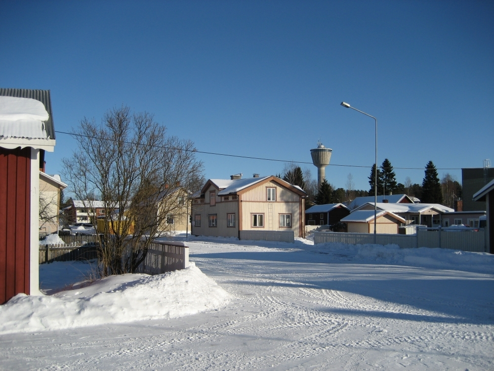 Nykarleby, Western Finland, 2009.